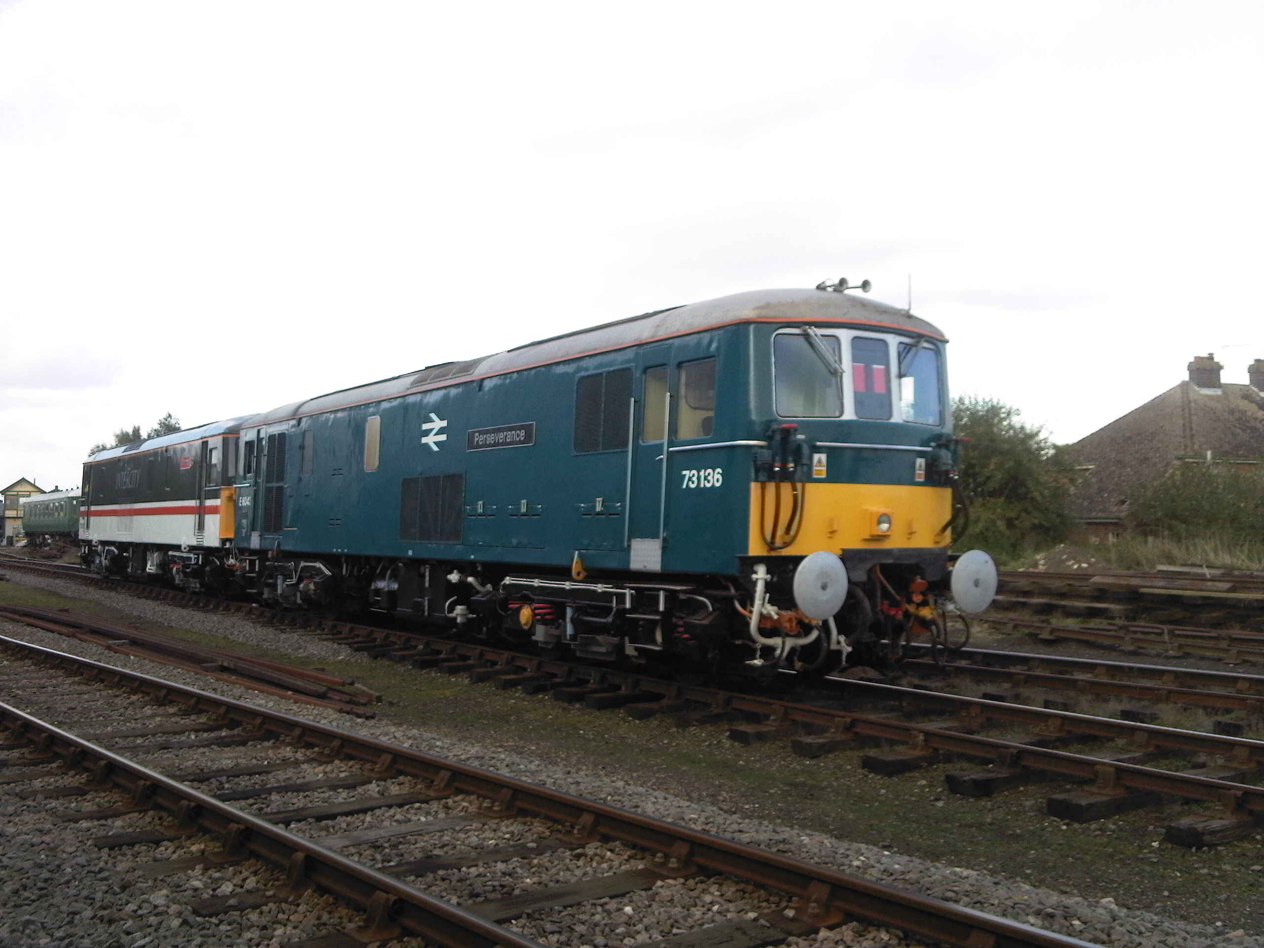 Resident 73210 and guest 73136 at Dereham